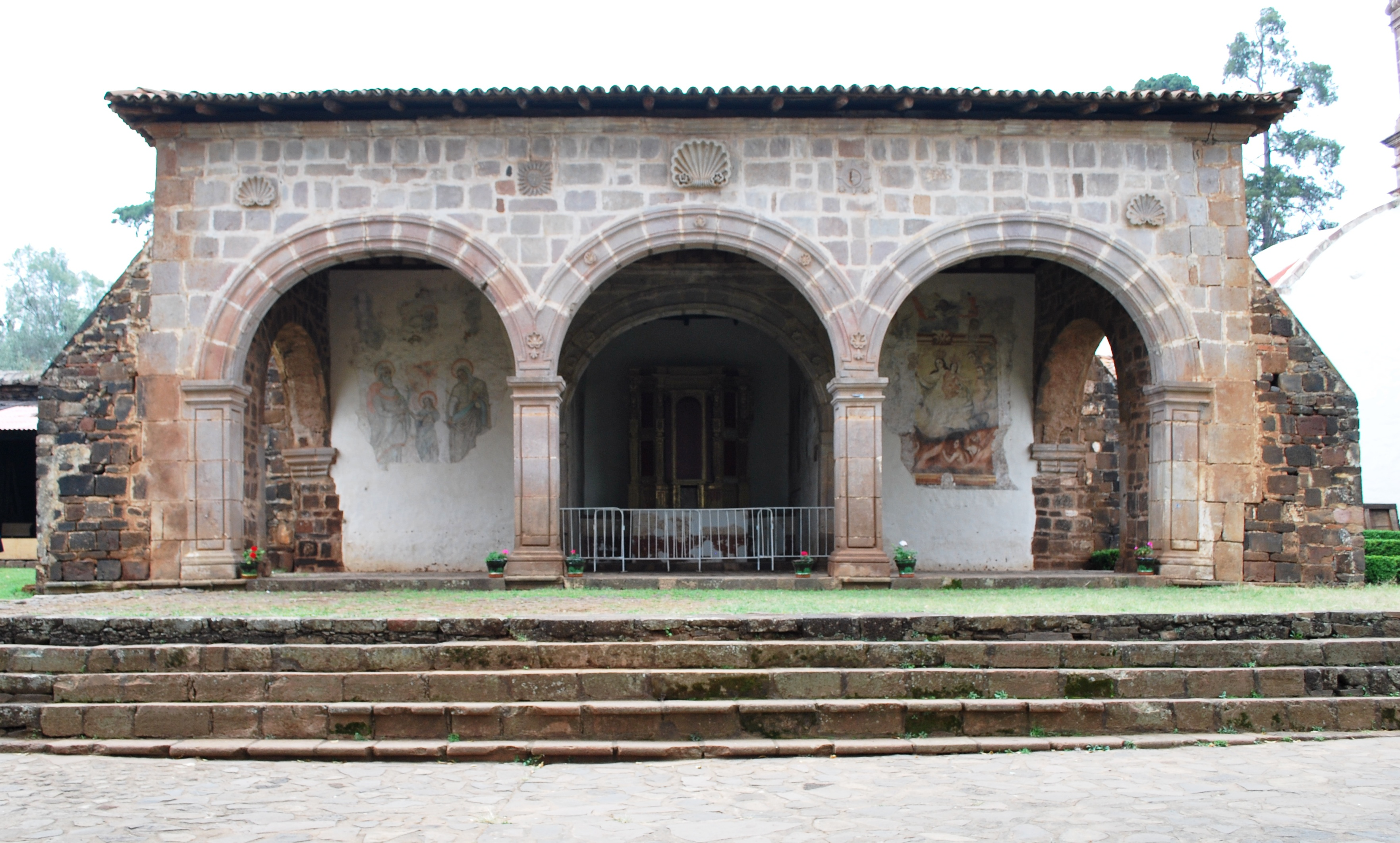 Open chapel of the Church and ex monastery complex of San Francisco — in Tzintzuntzan, Michoacan